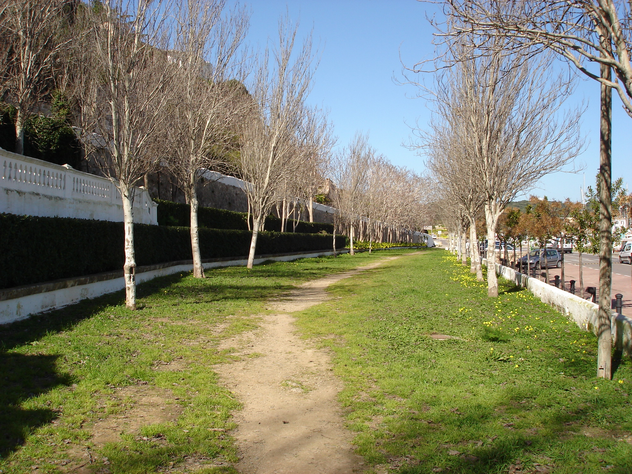 S'Hort Nou